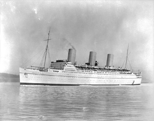 Artist/Photographer: Stewart Bale, Liverpool Source: Canadian Pacific Archives Date: 1931 URL